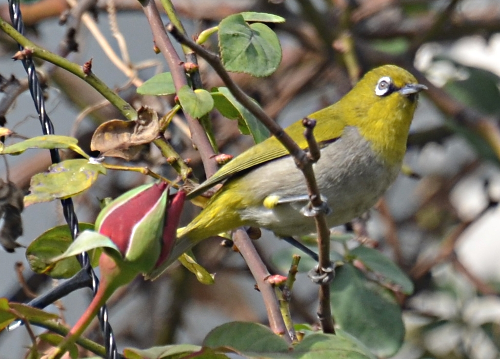 Oriental White-eye